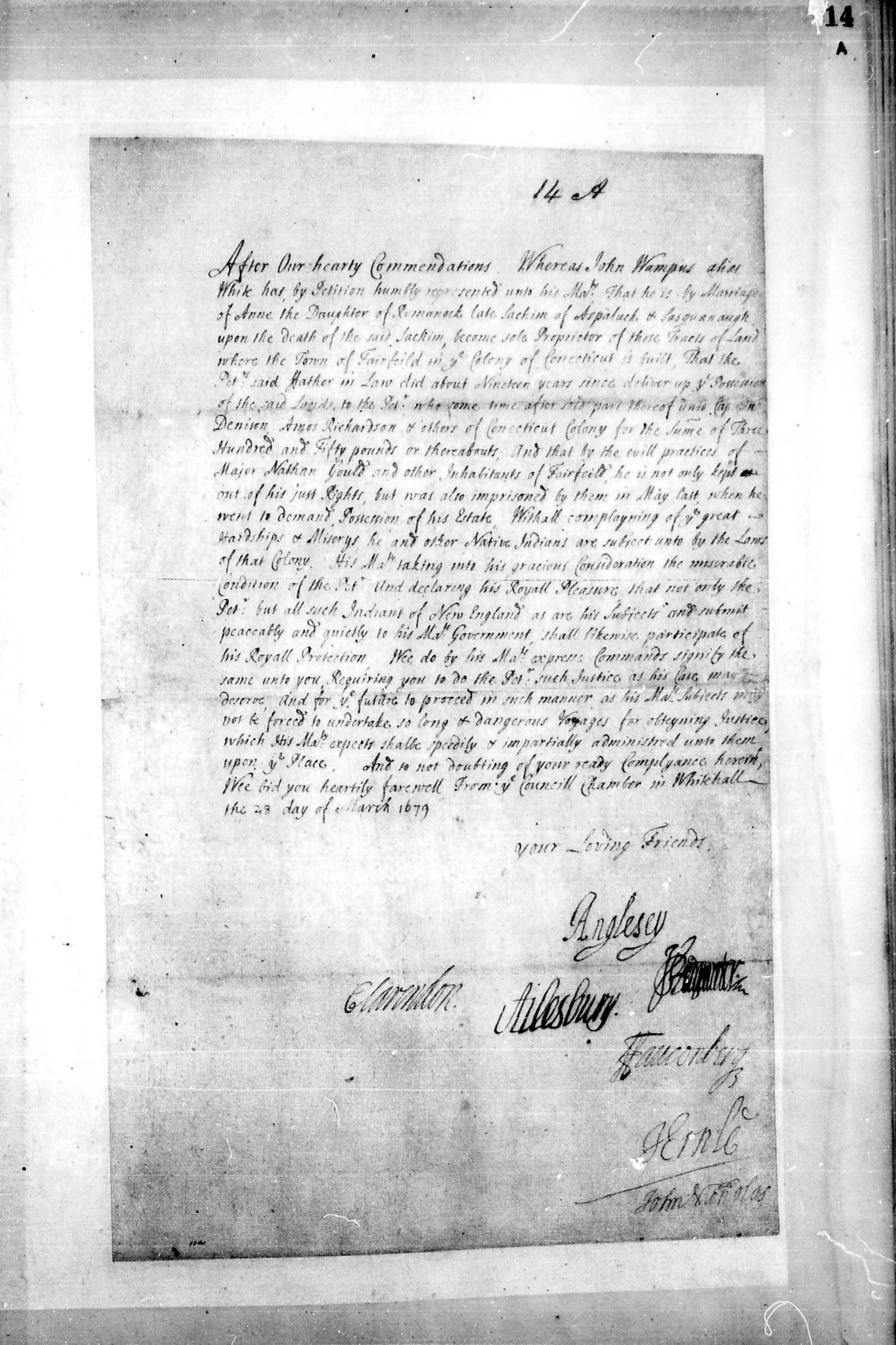 Privy Council ruling on Wampage I (John Wampus alias White) dated March 28, 1679, regarding Major Nathan Gold's refusal to honor contracts of sale between English colonists and Native Americans